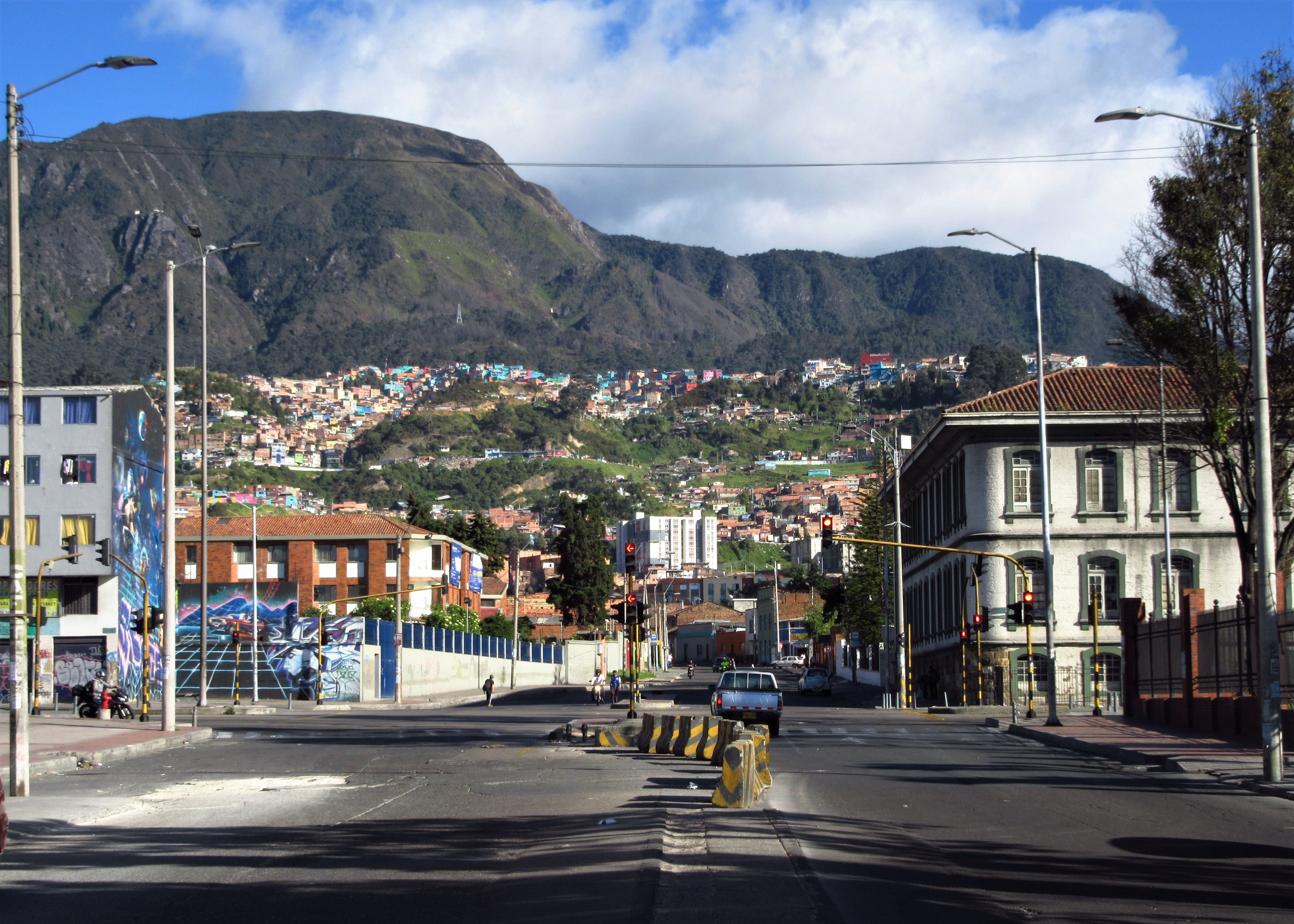 Bogotá